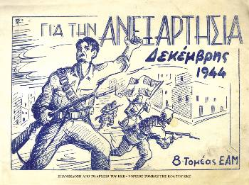 "For Independence" ! Cover page of album released December 1945 by 8th division of National Liberation Front (Greece). Dedicated to fighting of Greek People's Liberation Army against British army December 1944 in Athens.